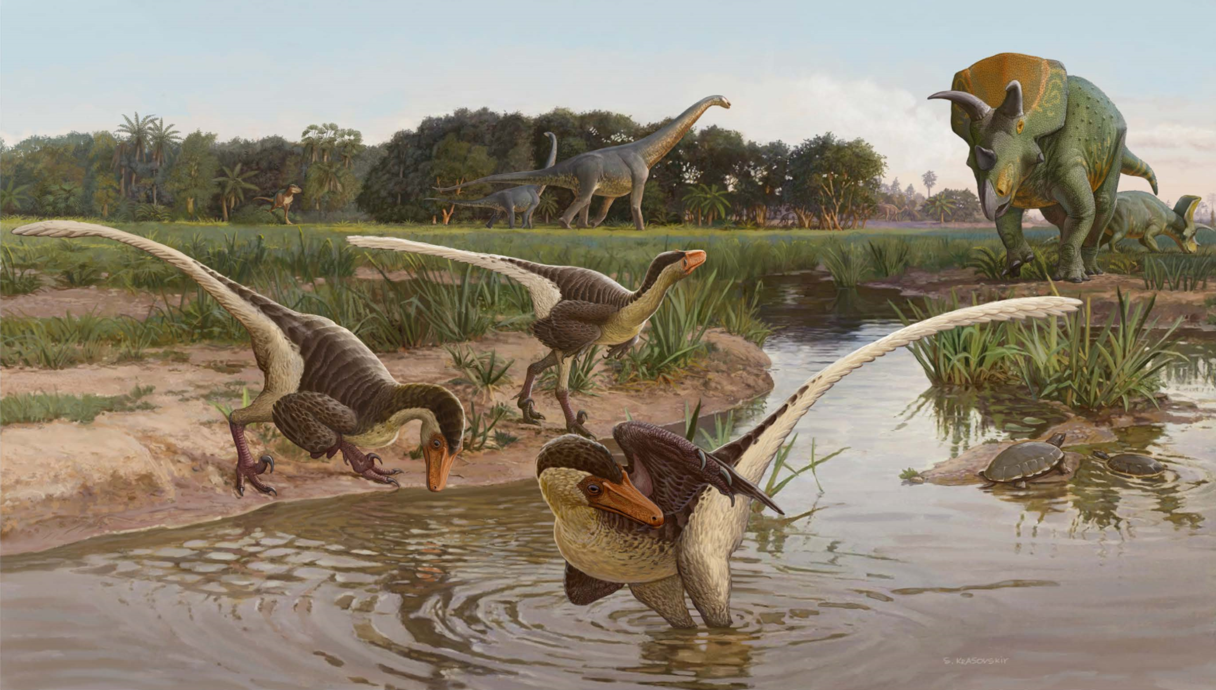 Life reconstruction of Dineobellator notohesperus depicting a possible scene from the Maastrichtian (approximately 66.5 Ma) in the San Juan Basin, New Mexico. Three D. notohesperus standing at the edge of a water source, with one in the foregrounf preening its feathers and another watching an Ojoceratops fowleri coming to the water's edge. Two Alamosaurus sanjuanensis are in the background, with a small tyrannosaurid watching from the forest edge. Artwork by Sergey Krasovskiy, with permission.